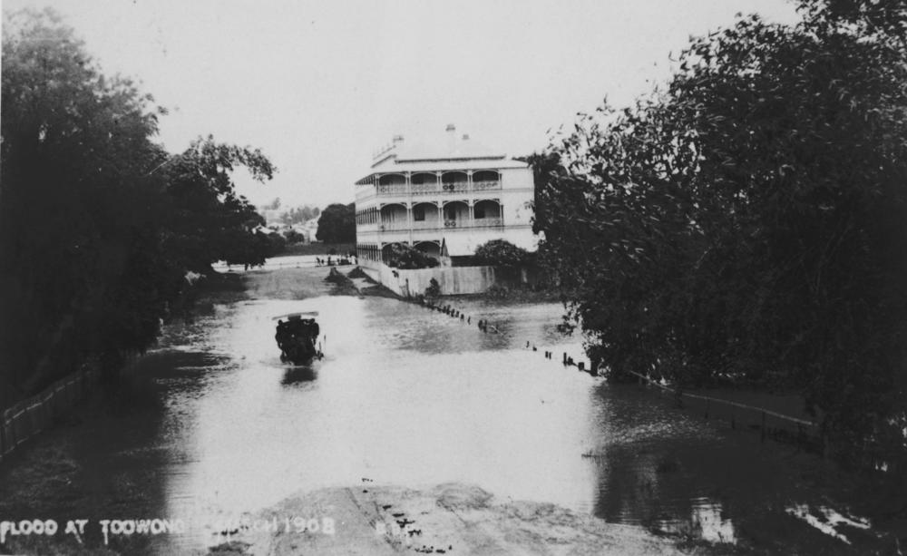 Floodwaters around the Regatta Hotel, Toowong, March 1908. Sylvan Road, looking towards River Road, showing a horse and carriage driving through the floodwaters. The Regatta Hotel on dry ground at the intersection of the roads.